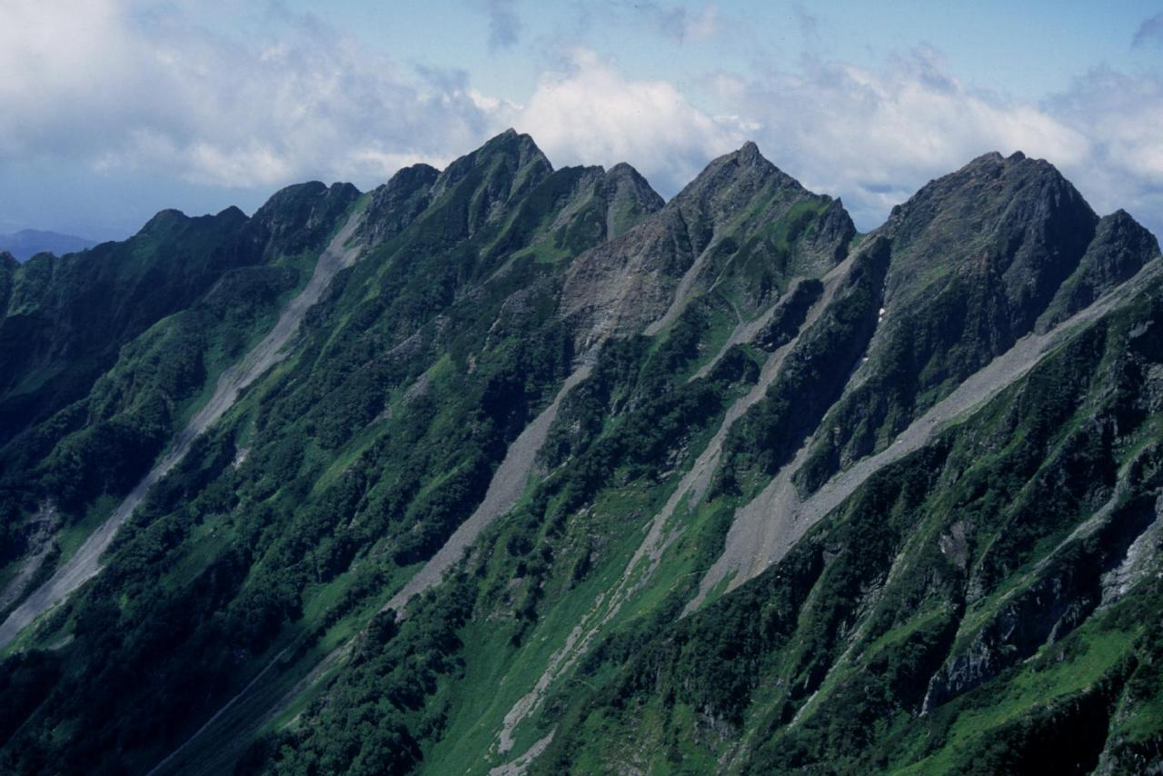 Mount Nishihota and Mount Aino seen from Maehotaka in Hida Mountains, Japan.